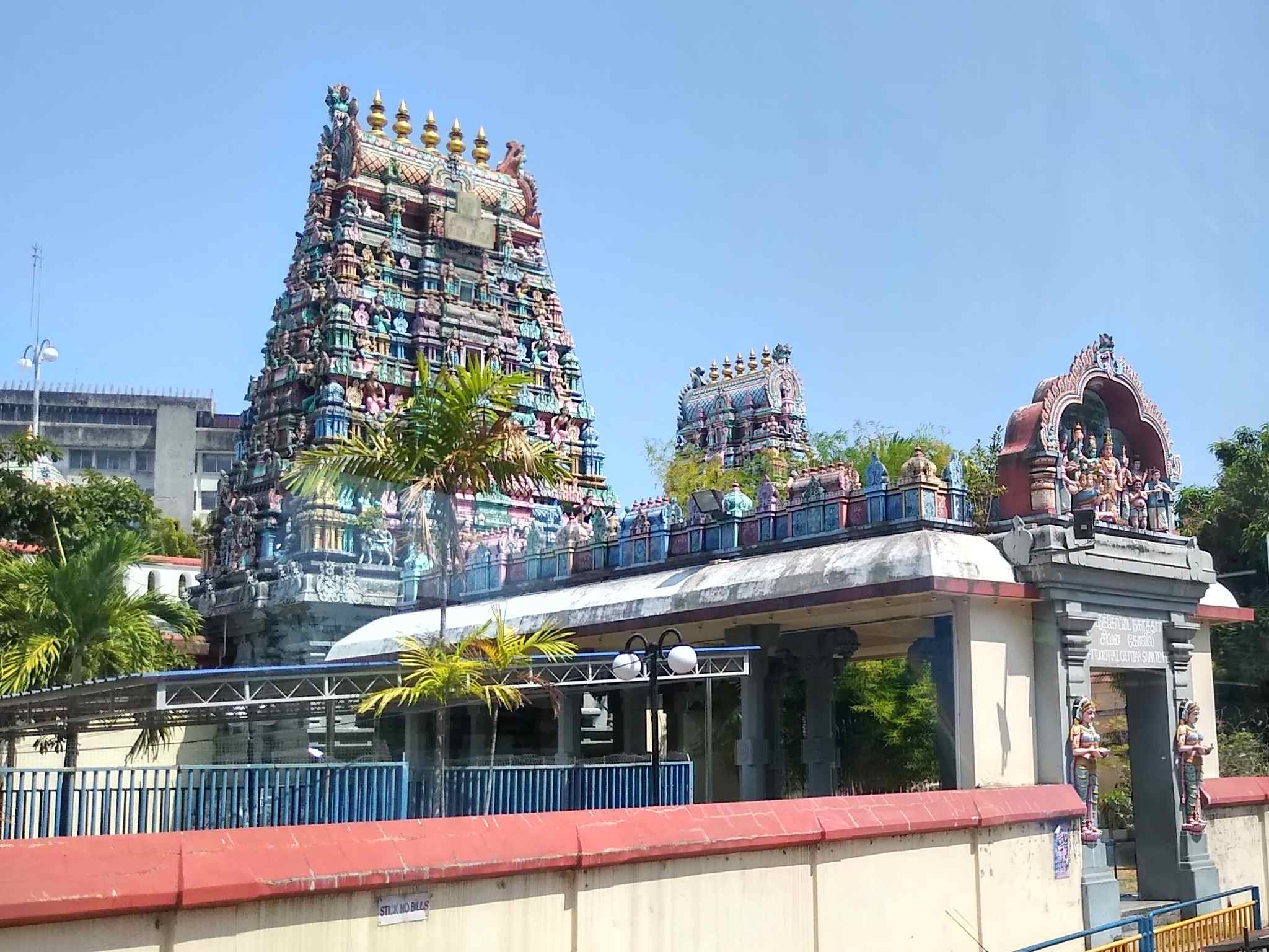 The Nagarathar Sivan Temple, Penang in January 2019.